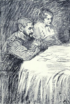 Illustration to Bródy Sándor's novel